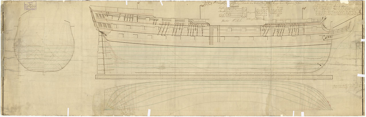 Scale: 1:48. Plan showing the body plan, sheer lines, and longitudinal half-breadth proposed (and approved) for 'Illustrious' (1803), 'Albion' (1802), 'Hero' (1803), 'Marlborough' (1807), 'York' (1807), 'Hannibal' (1810), 'Sultan' (1807), and 'Royal Oak' (1809), all 74-gun Third Rate, two-deckers. The alterations relating to the catheads and forecastle beams refer to 'Hannibal' (1810), and to 'Victorious' (1808) of the 'Swiftsure' class (1800). Signed by John Henslow [Surveyor of the Navy 1784-1806] and William Rule [Surveyor of the Navy, 1793-1813].